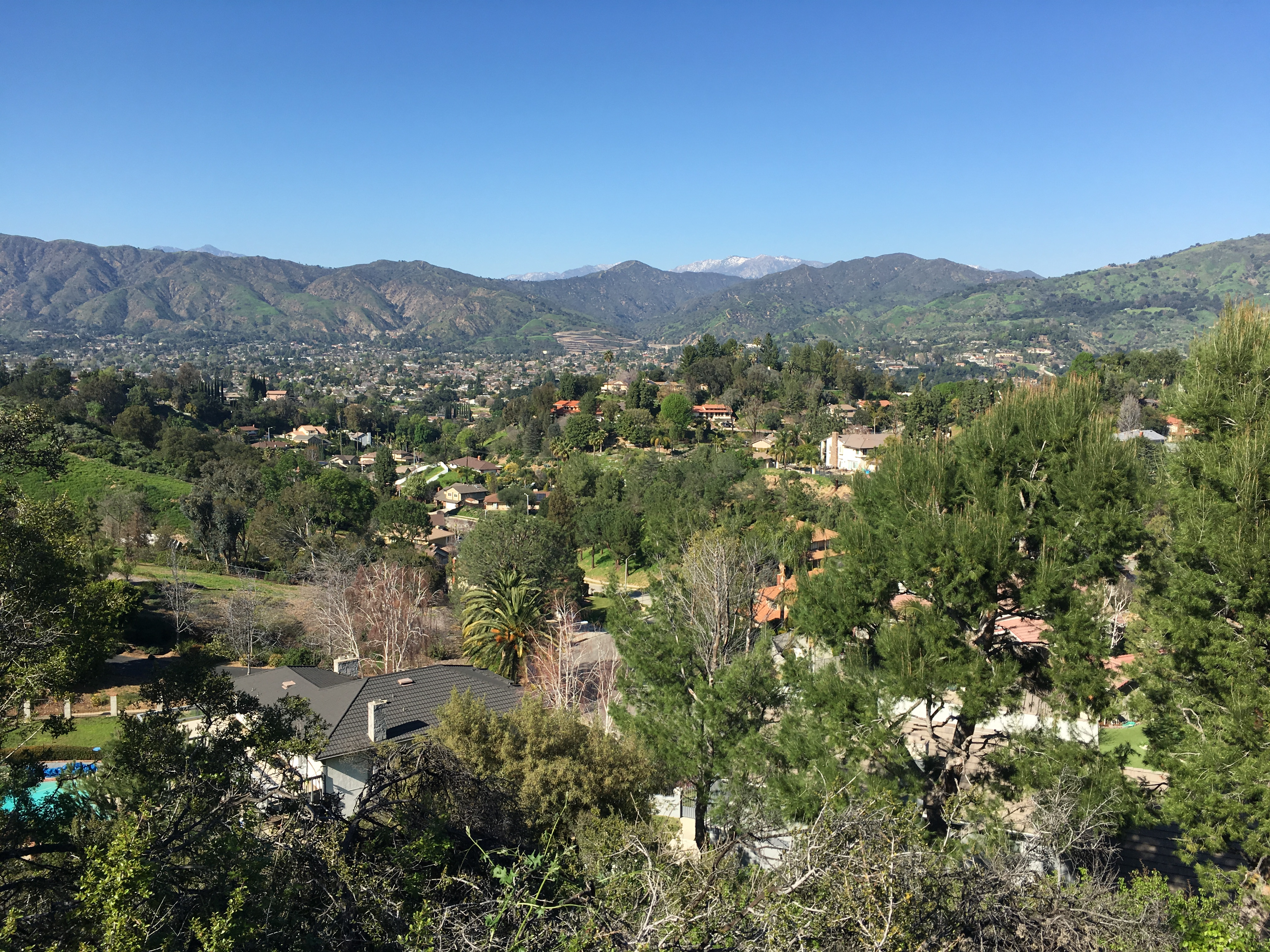 Glendora with the San Gabriel Mountains in the background as seen from the South Hills